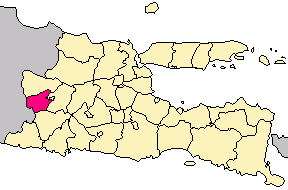 Location of Magetan county, East Java province, Indonesia